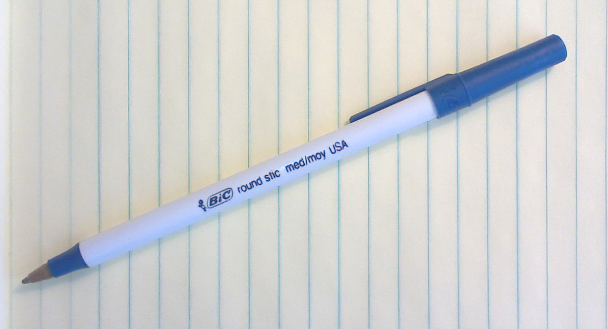 The Bic Stic Ballpoint Pen